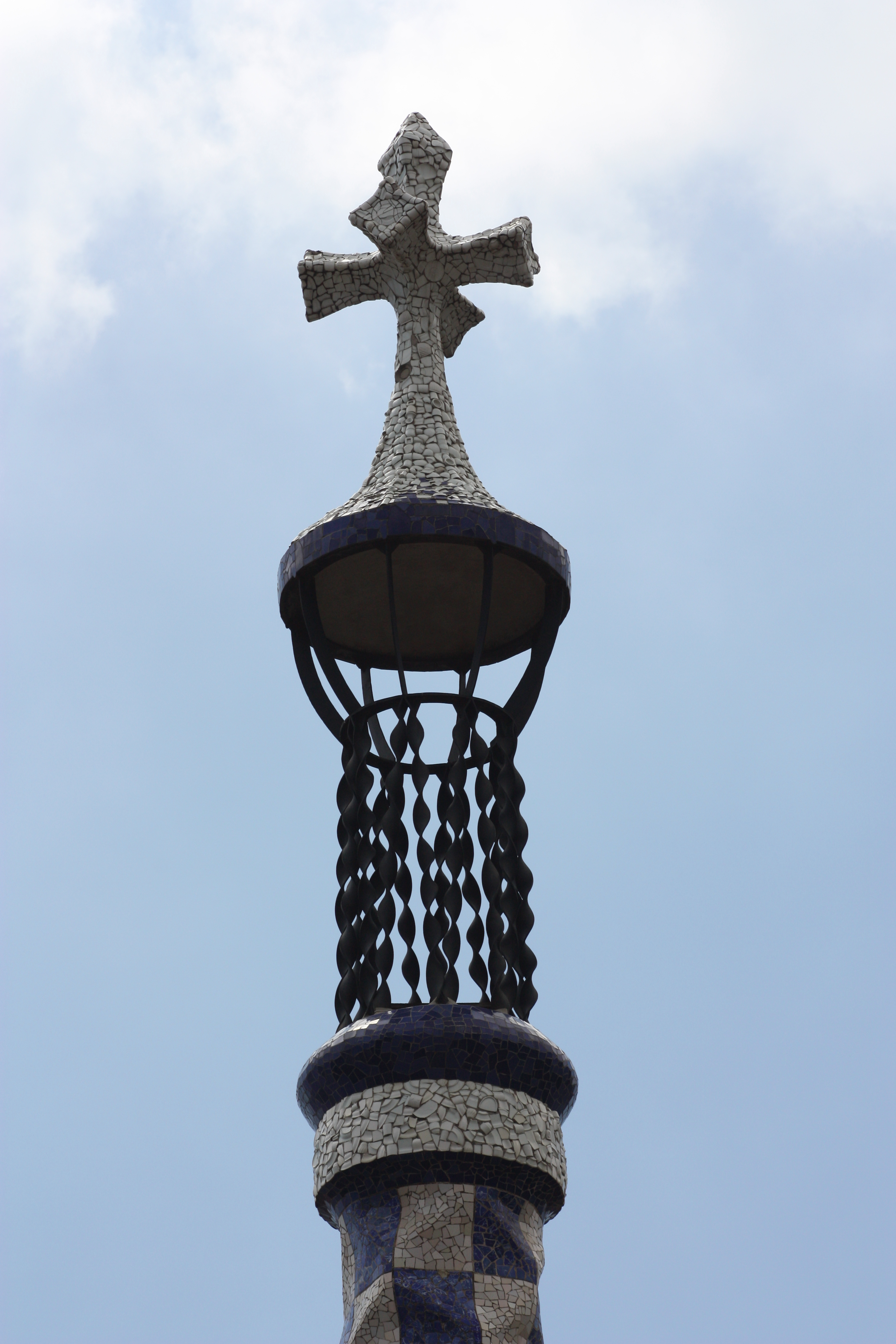 Parc Güell, Barcelona, July 2009